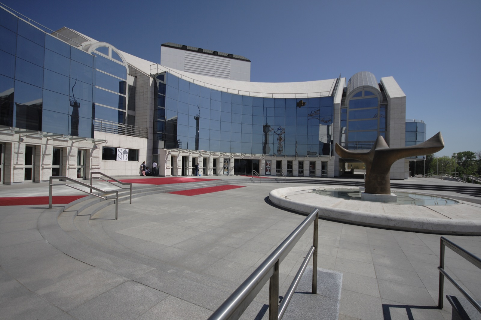 Slovak National Theater